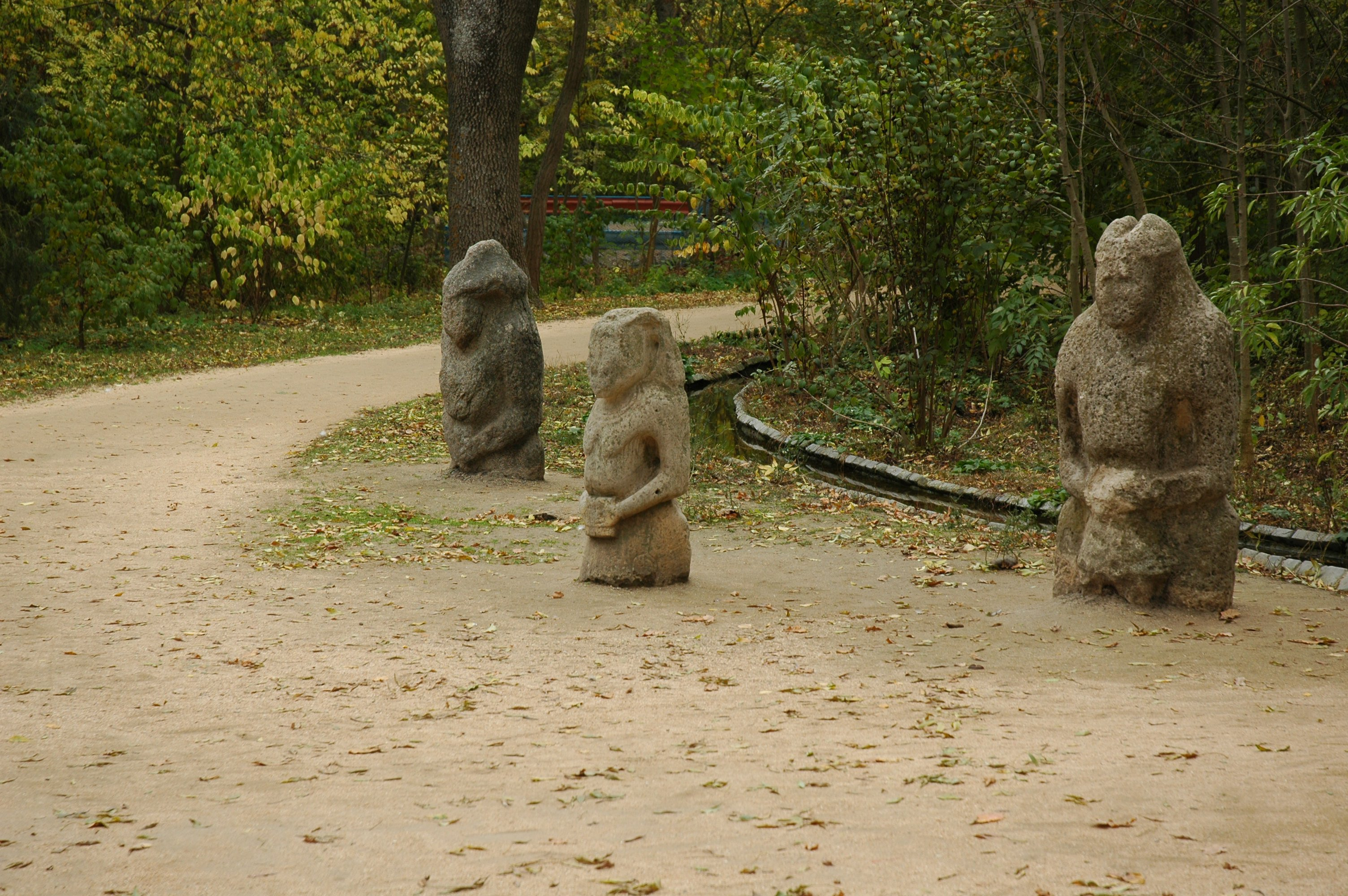 Several statues "Baba", scattered around Askania Nova, a biosphere reserve (sanctuary) located in Kherson Oblast, Ukraine